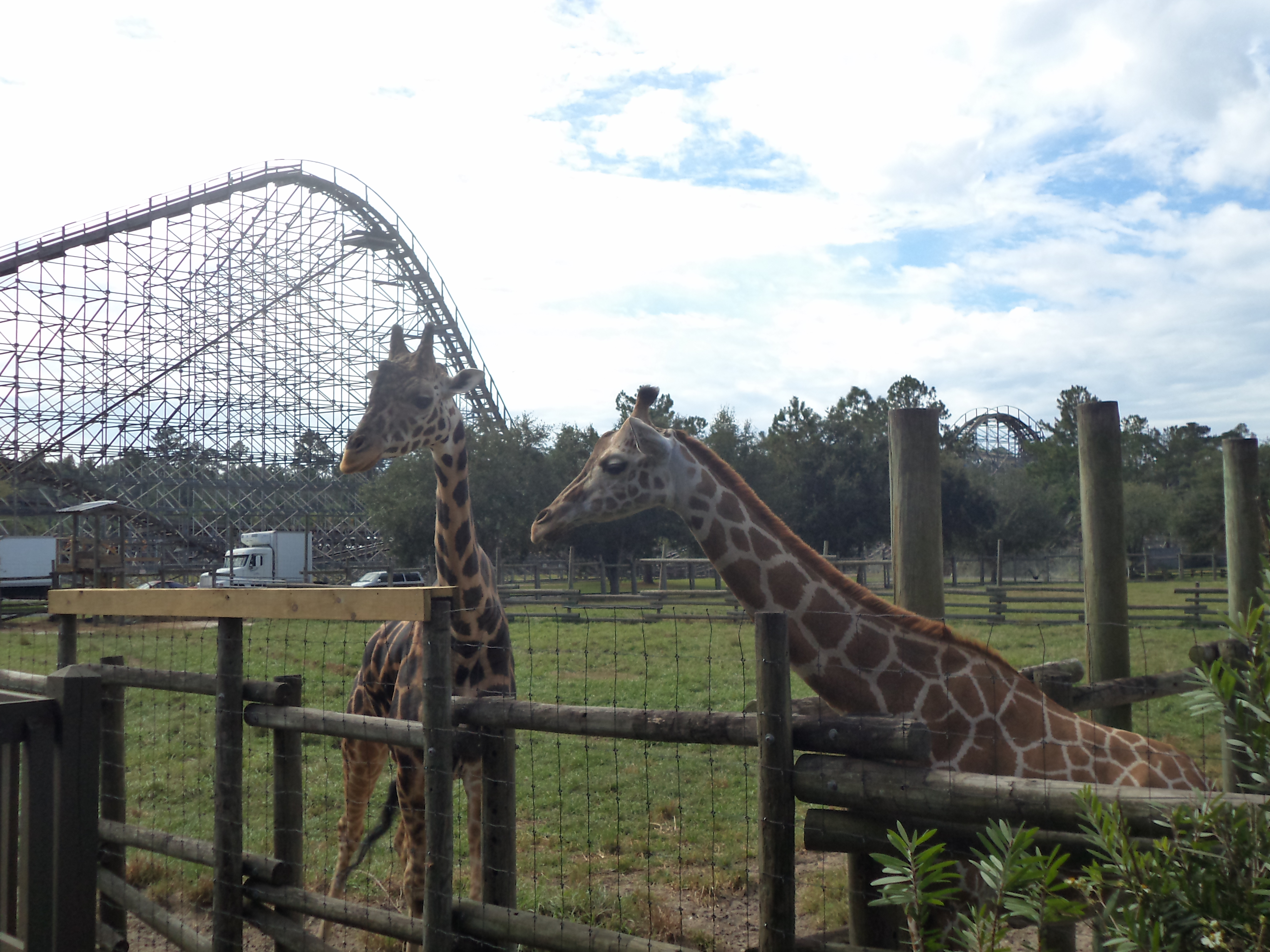 Giraffes at Wild Adventures, Lowndes County, Georgia